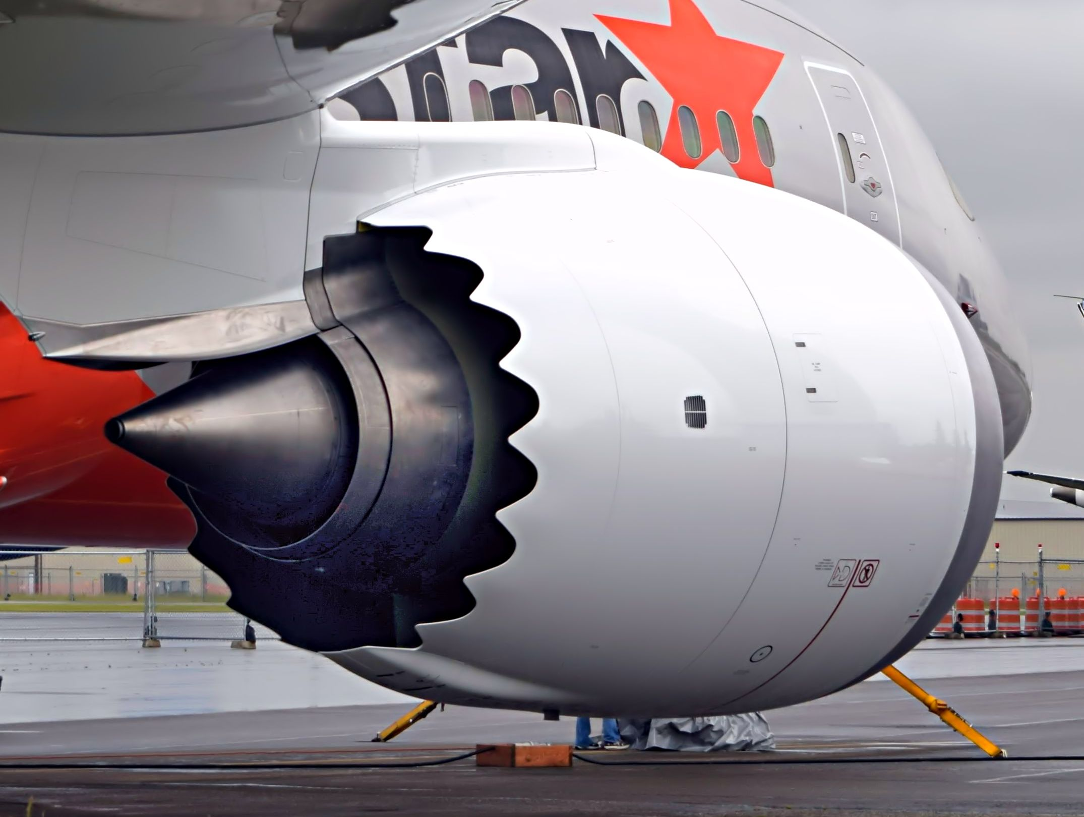 General Electric GEnx-1B intalled on a Jetstar Boeing 787